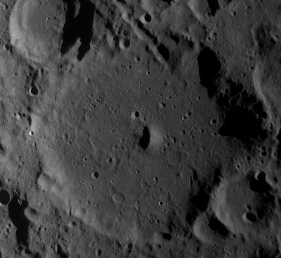 LROC WAC mosaic image (No.s' M130869382ME and M130855791ME).